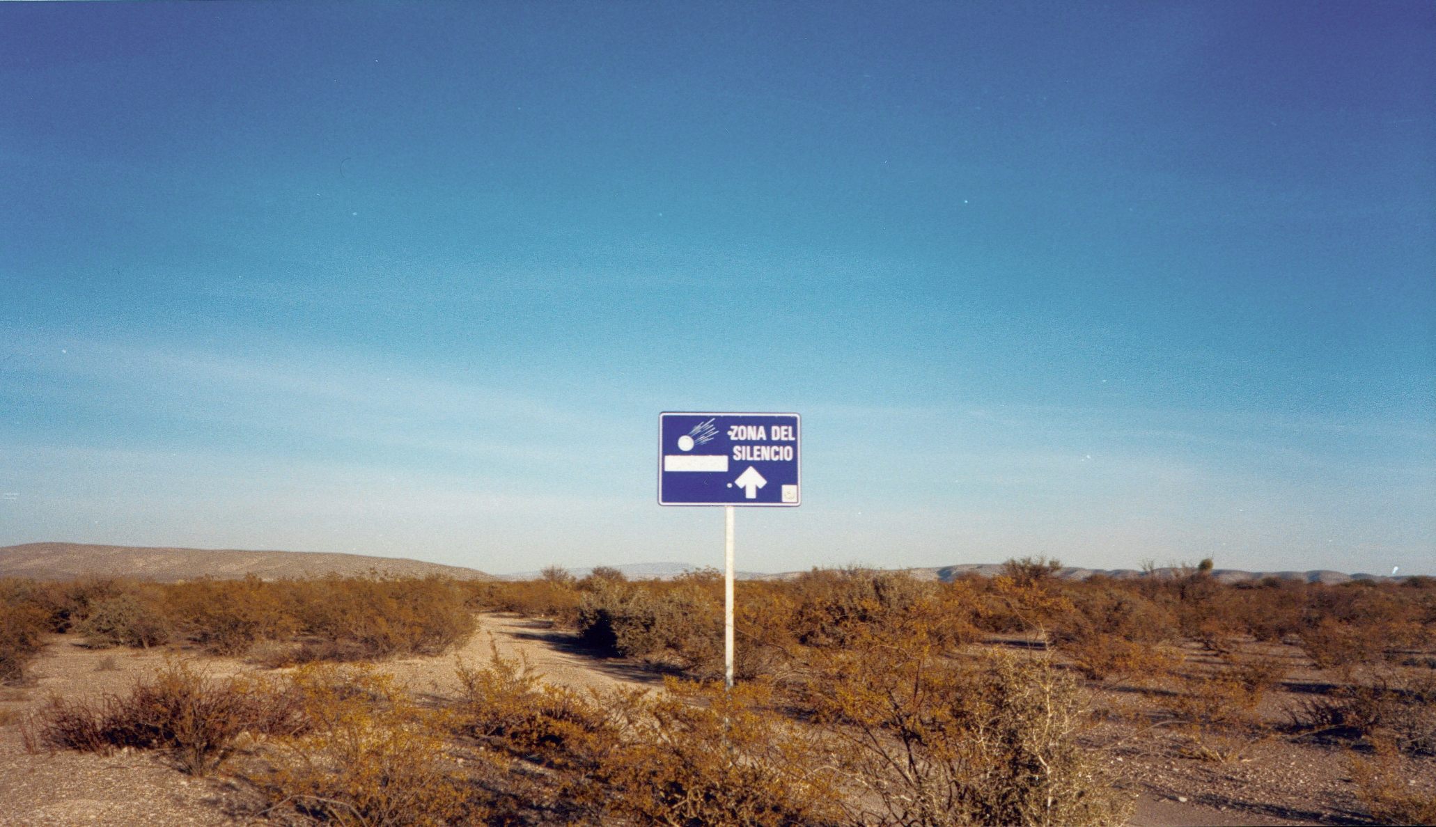 Zona del Silencio landscape, North Mexico